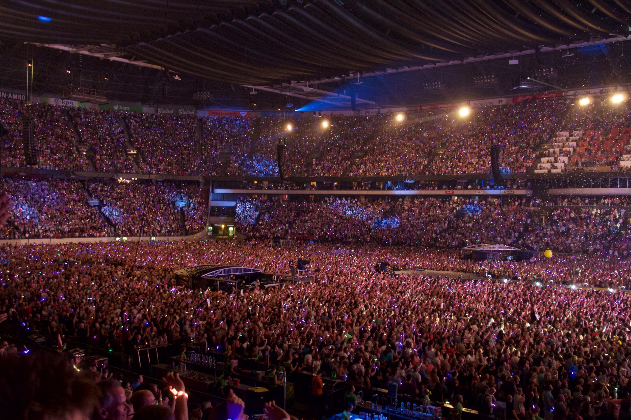 Coldplay perform at the Amsterdam Arena, during the A Head Full of Dreams Tour, 24 June 2016.